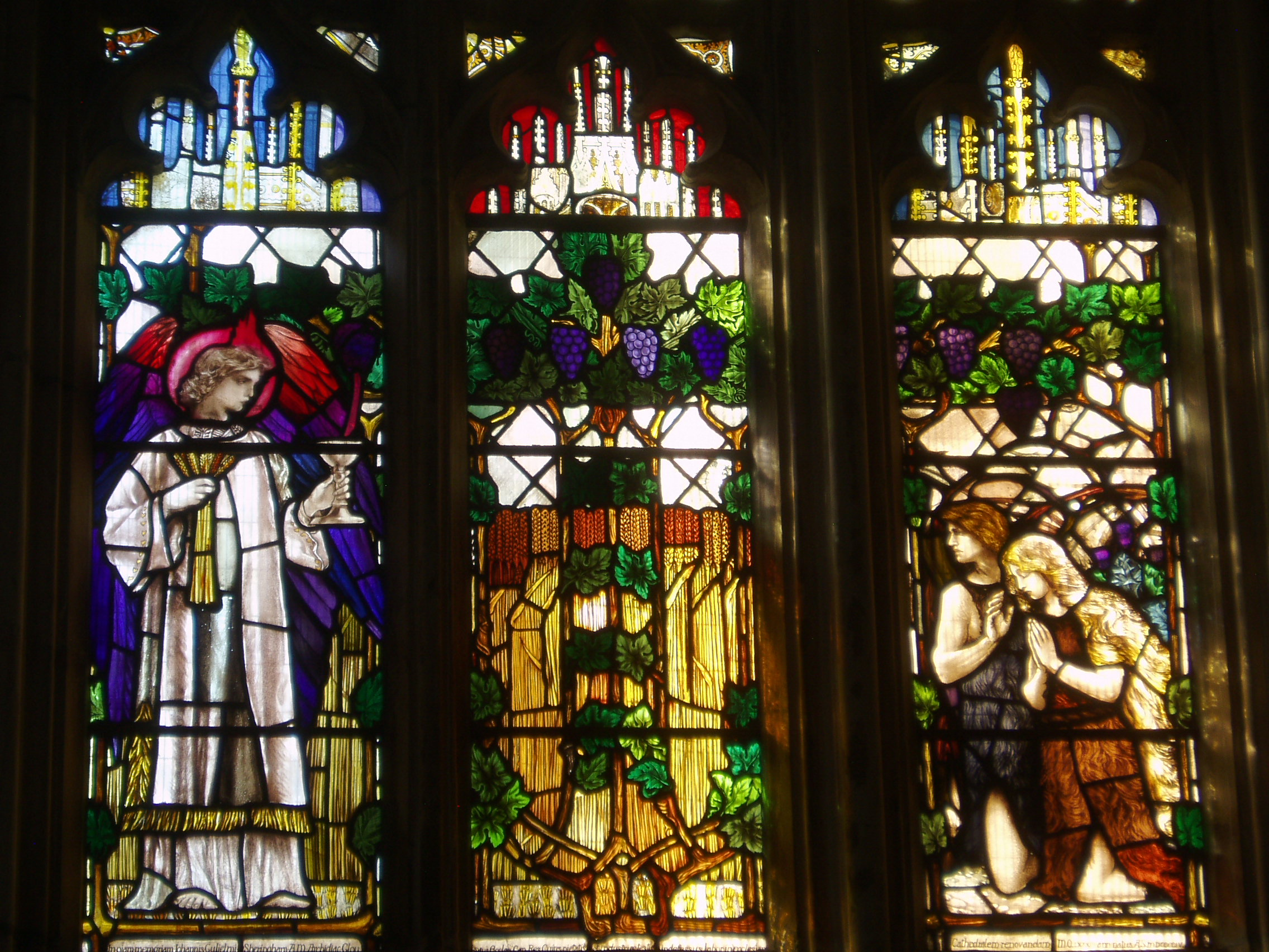 Whall work in Gloucester Cathedral